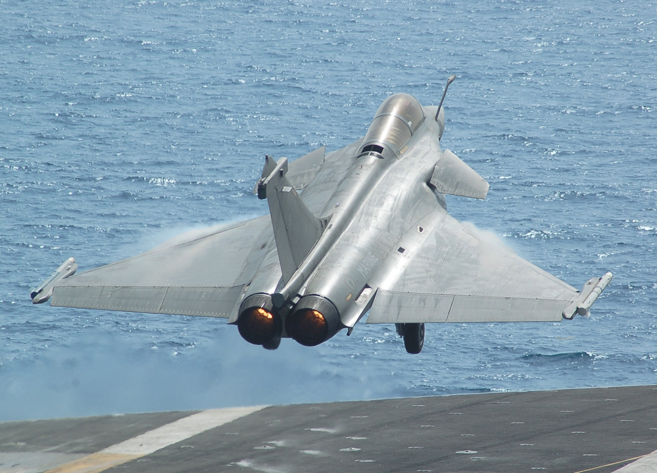 ARABIAN SEA (April 12, 2007) - A French Rafale from the French nuclear-powered aircraft carrier FNS Charles de Gaulle (R 91) completes a touch-and-go landing on the flight deck of the Nimitz-class aircraft carrier USS John C. Stennis (CVN 74). Stennis, as part of the John C. Stennis Carrier Strike Group, and Charles de Gaulle, the Flagship of Commander, Task Force 473, are operating in the North Arabian Sea. Stennis and Charles de Gaulle are conducting bilateral exercises and supporting multi-national ground forces in Afghanistan. U.S Navy photo by Mass Communication Specialist 2nd Class Mark Logico (RELEASED)